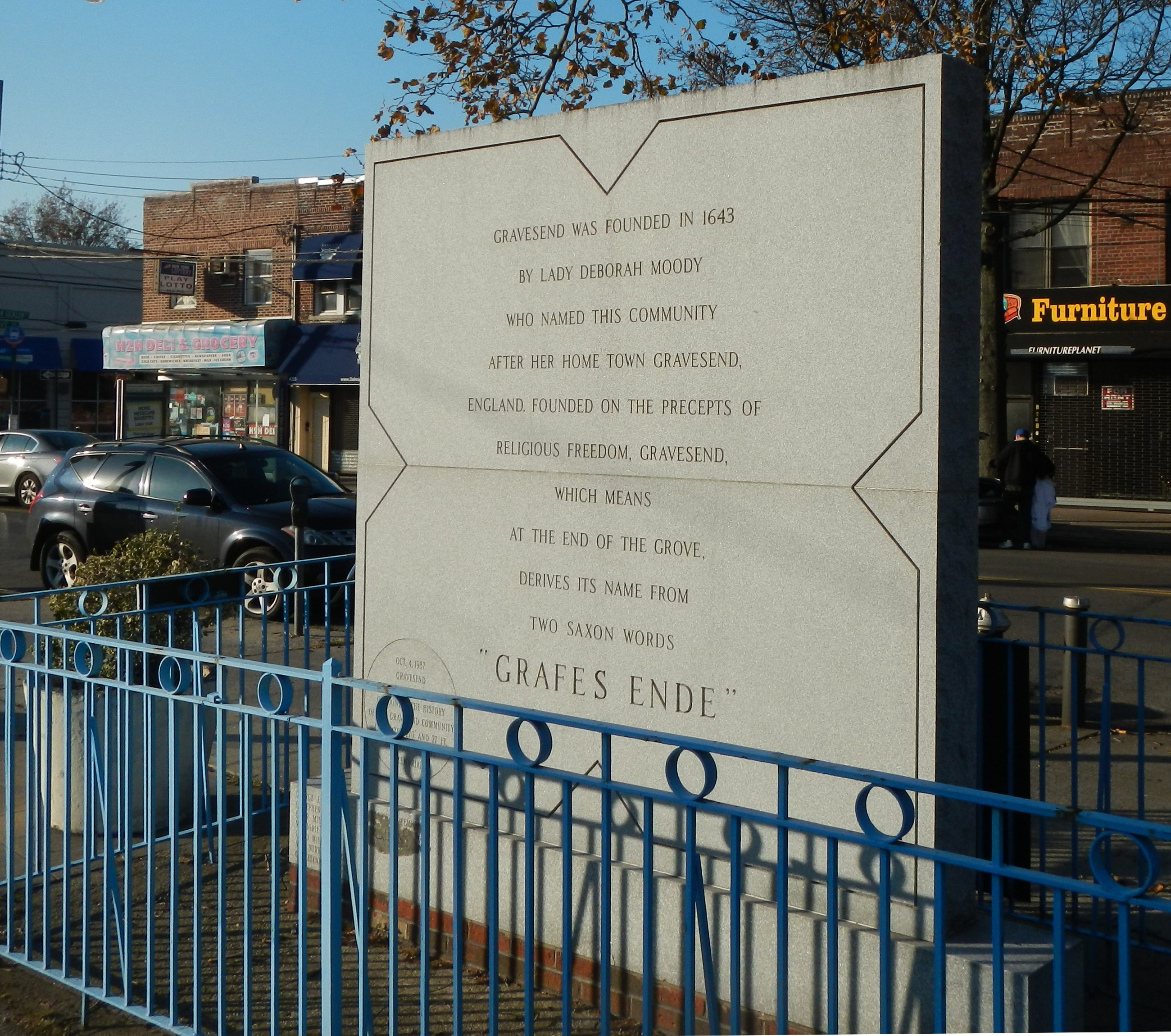 Looking northwest at Moody memorial on a sunny afternoon.